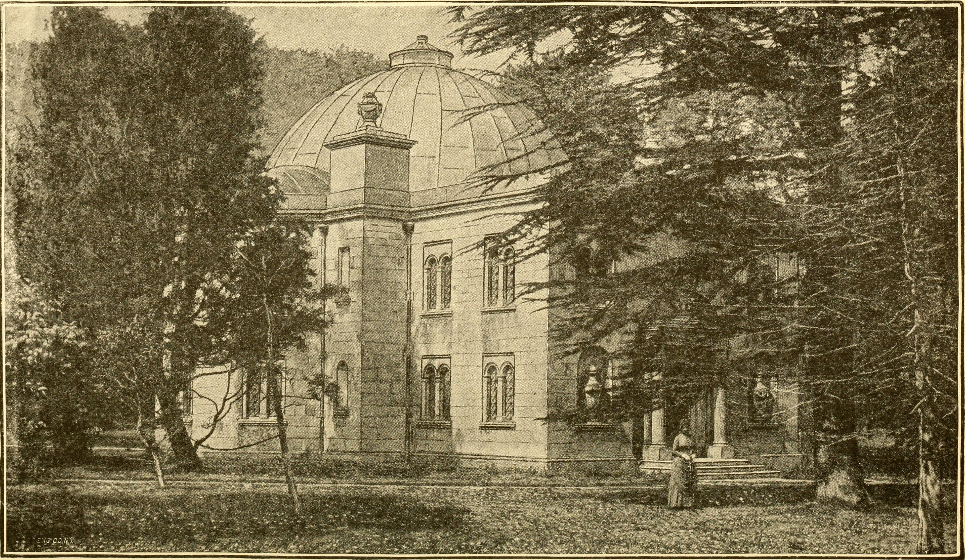 Title: History of the Catholic Church in the United States Year: 1886 (1880s) Authors: Shea, John Gilmary, 1824-1892 Subjects: Catholic Church Publisher: New York : D.H. McBride Text Appearing Before Image: s Text Appearing After Image: HISTORY OF THE Catholic Church IN THE UNITED STATES 1763-1815 WITH PORTRAITS, VIEWS AND FAC-SIMII,ES JOHN GILMARY SHEA VOLUIVLE II D. H. McBRIDK & CO. AKRON, O.NEW YCRK CHICAGO \^ f COPYRIGHT, 1888, BYJOHN GILMARY SHEA. The illustrations in this work are copyrighted^ and reproduction is forbidden. TO THE PATRONS His Eminence, John Cardinal McCloskey ; His Eminence,James Cardinal Gibbons ; their Graces, the Most Rev. M. A. CORRIGAN, D.D. ; JOHN J. WiLLIAMS, D.D. ; PATRICK J. RyAN, D.D.; William H. Elder, D.D.; The Rt. Revs. John Lough- LIN, D.D. ; WiNAND M. WiGGER, D.D. ; B. J. McQUAID, D.D. ; John Conroy, D.D.; John Ireland, D.D.; John L. Spalding,D.D.; James Augustine Healy, D.D.; P. T. OReilly, D.D.;Richard Gilmour, D.D.; Stephen V. Ryan, D.D.; HenryCosGROVE, D.D.; T. F. Hendricken, D.D.; M. J. OFarrell,D.D.; John J. Keane, D.D.; Denis M. Bradley, D.D.;Boniface Wimmer, D.D.; Rt. Rev. Mors. Wm. Quinn; T. S.Preston; John M. Farley; James A. Corcoran; Very Revs.I. T. Hecker; Michaehistoryofcatholi22shea